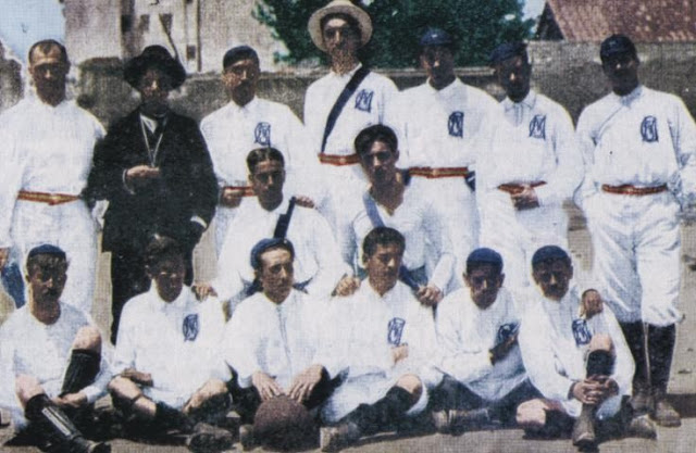 The Real Madrid football team of 1902, the year when the club was established.